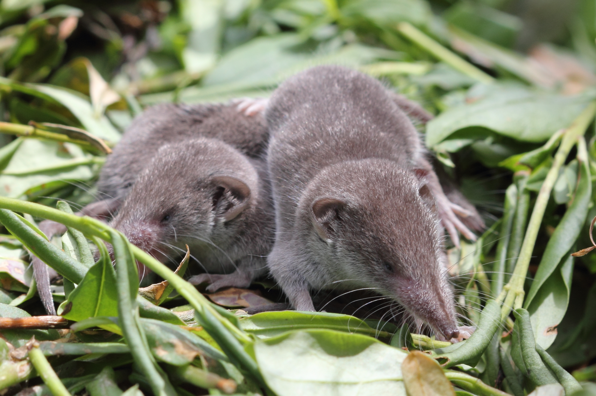 Young shrews (crocidura, most likely c. russula) near their nest. Picture taken at a compost heap in Germany.